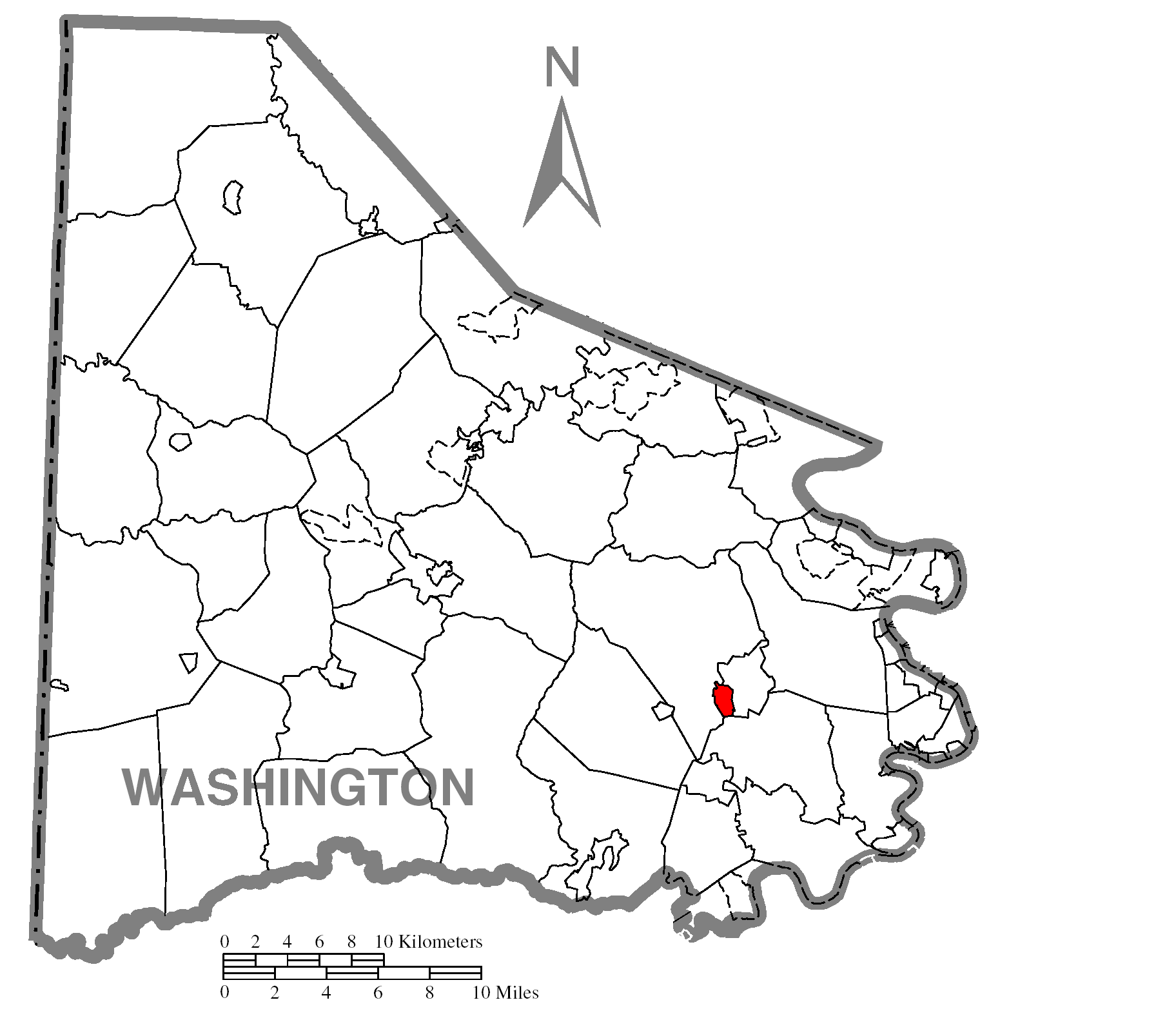 Map of Washington County higlighting Ellsworth.